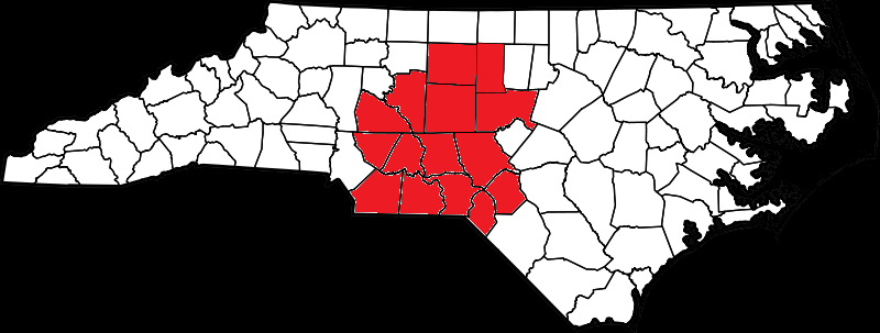 Map of the People's Republic of Pineland, a fictitious nation used in Exercise Robin Sage